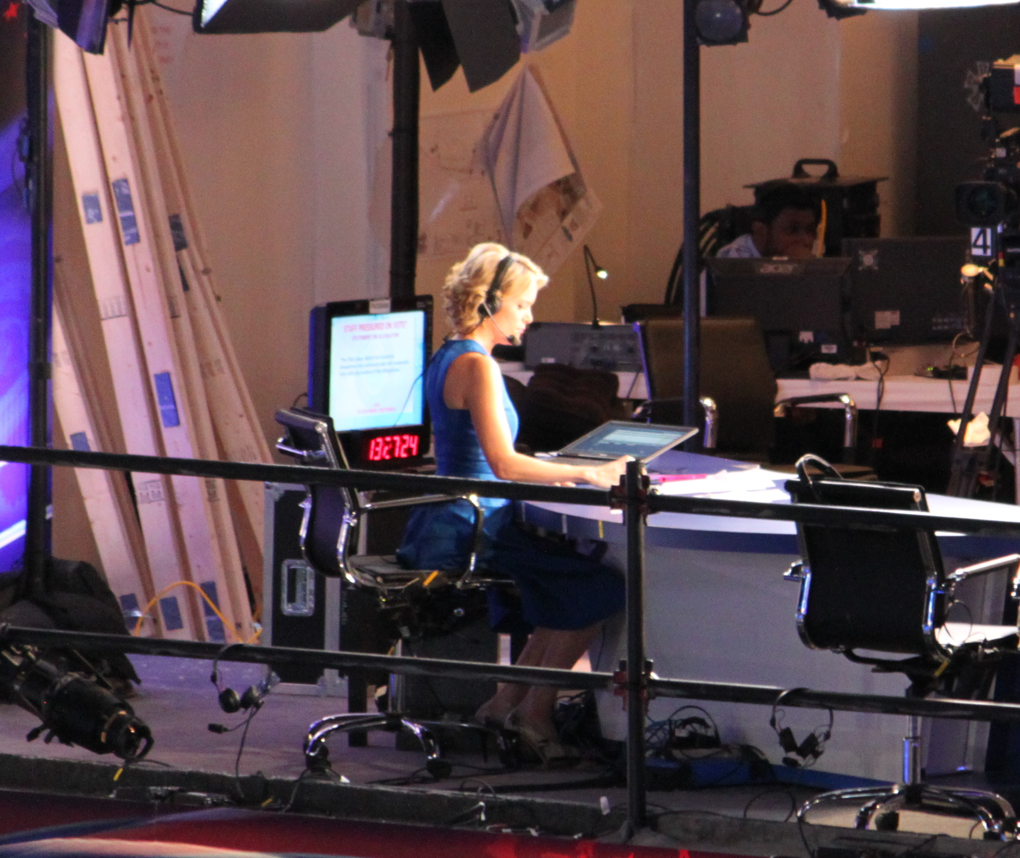 2012 Democratic National Convention: Day 3